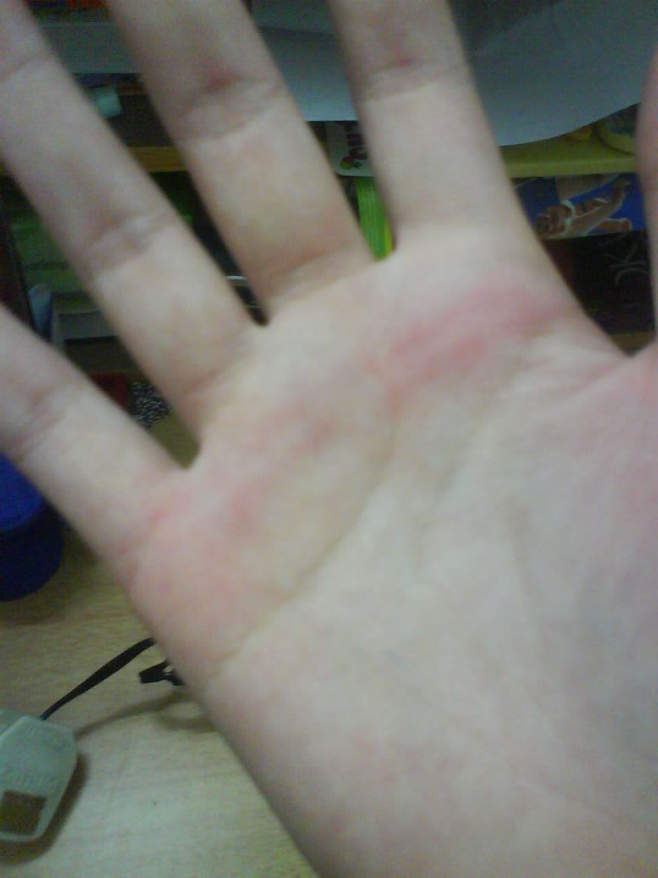 The marks left on a Malaysian secondary school student's hand after she was caned once on her hand by her teacher. Picture taken with permission from the said student.